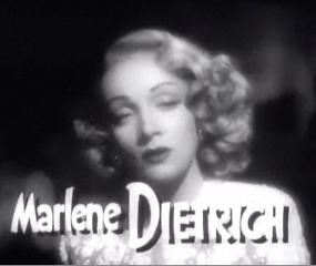 Cropped screenshot of Marlene Dietrich from the trailer for the film A Foreign Affair